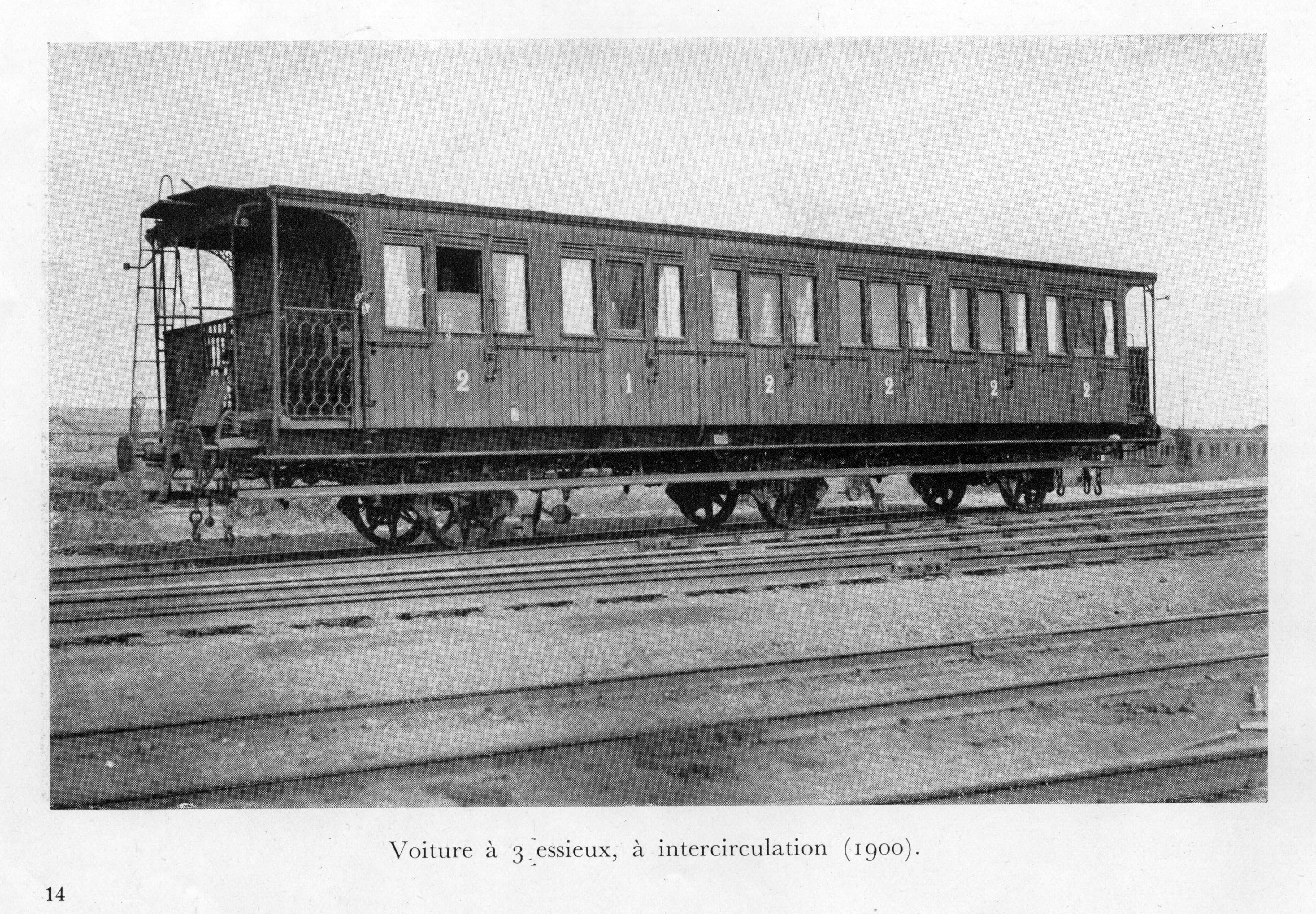 Railway coach 1st and 2de clas with 3 axels. 1900